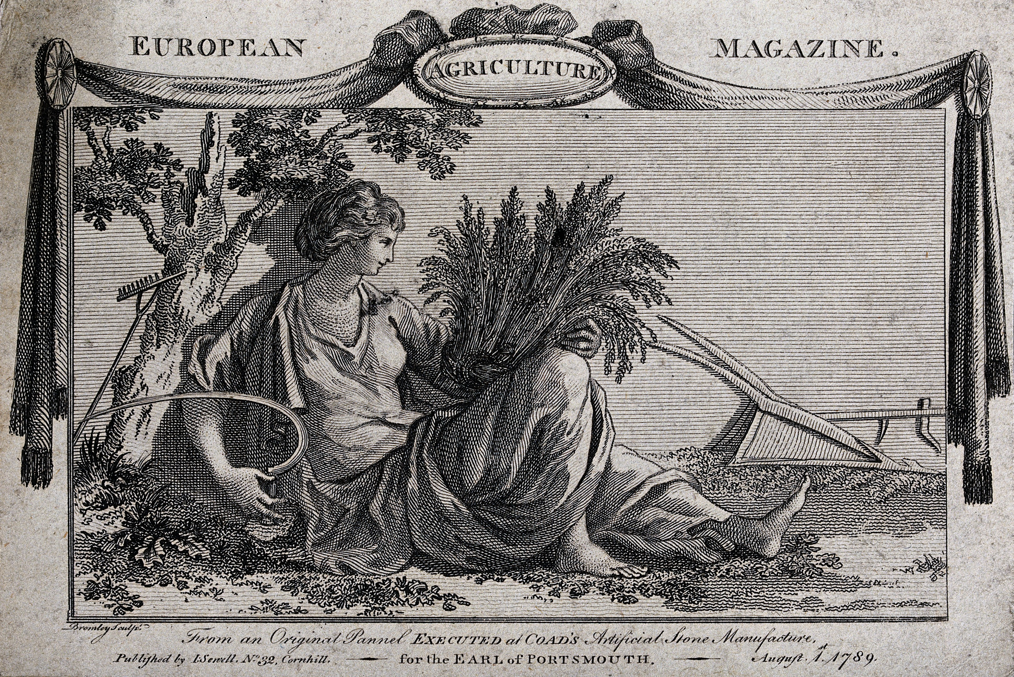 An allegory of agriculture: Ceres reclining amidst a collection of farm implements, she holds a sheaf of wheat and a scythe. Engraving by W. Bromley, 1789, after a sculptural panel by Mrs E. Coade. Iconographic Collections Keywords: William Bromley; Eleanor Coade